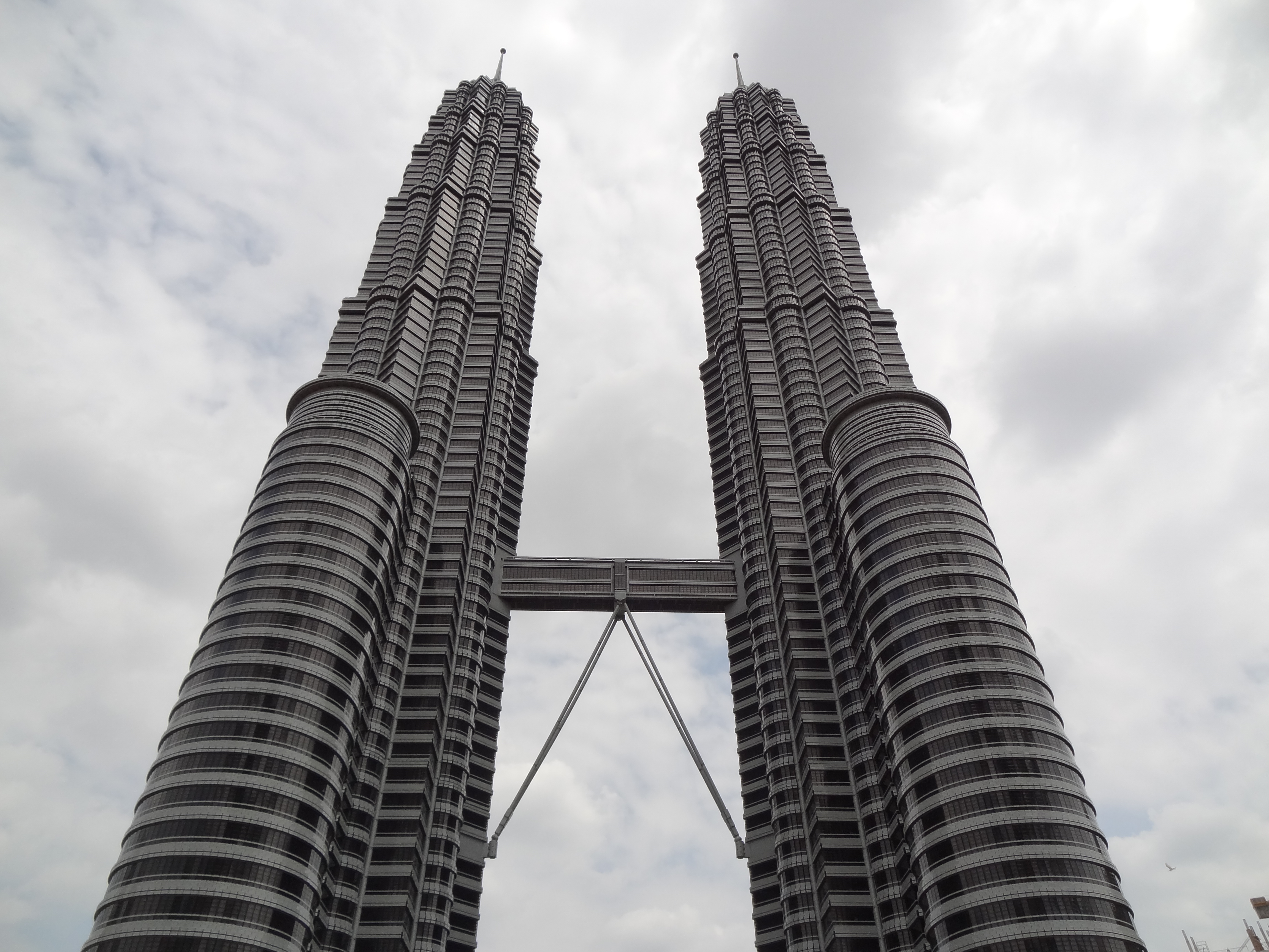 Petronas Towers at Legoland Malaysia